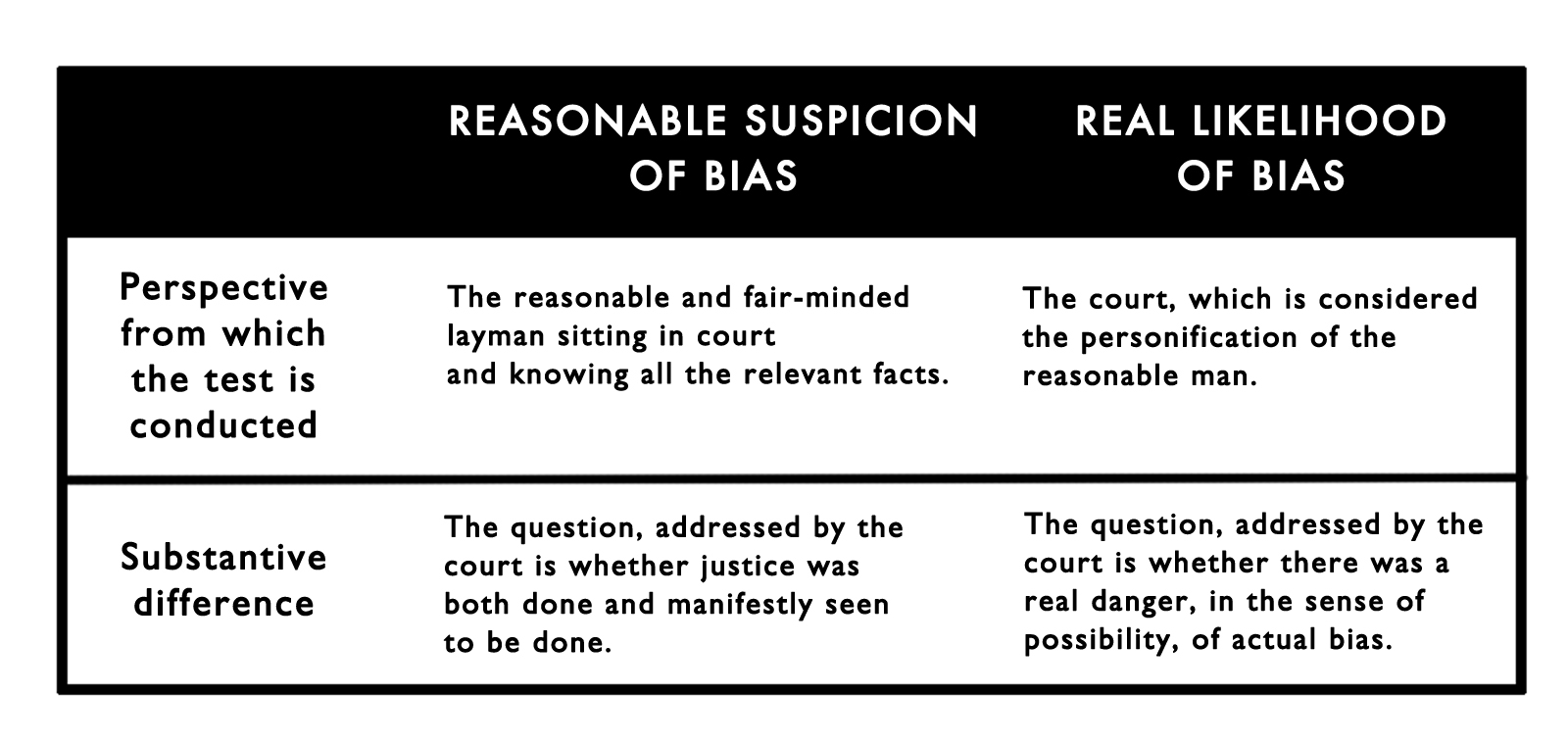 A table comparing of the reasonable suspicion of bias and real likelihood of bias tests for apparent bias. The tests were discussed in the High Court of Singapore judgment of Re Shankar Alan s/o Anant Kulkarni (2006).